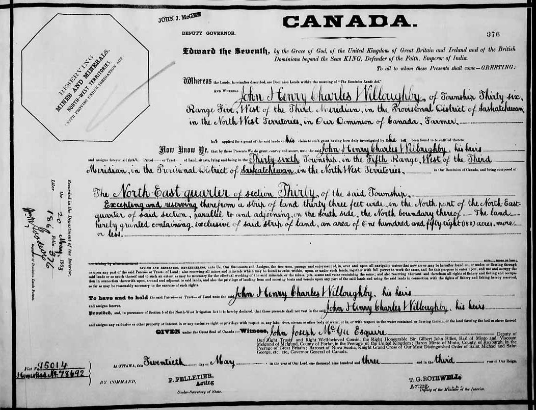 Western Land Grant patent, in the provisional district of Saskatchewan, from the Dominion Government to Dr. J.H.C. Willoughy of Pleasant Hill, a pioneer doctor whose home became one of the first hospitals in the area/